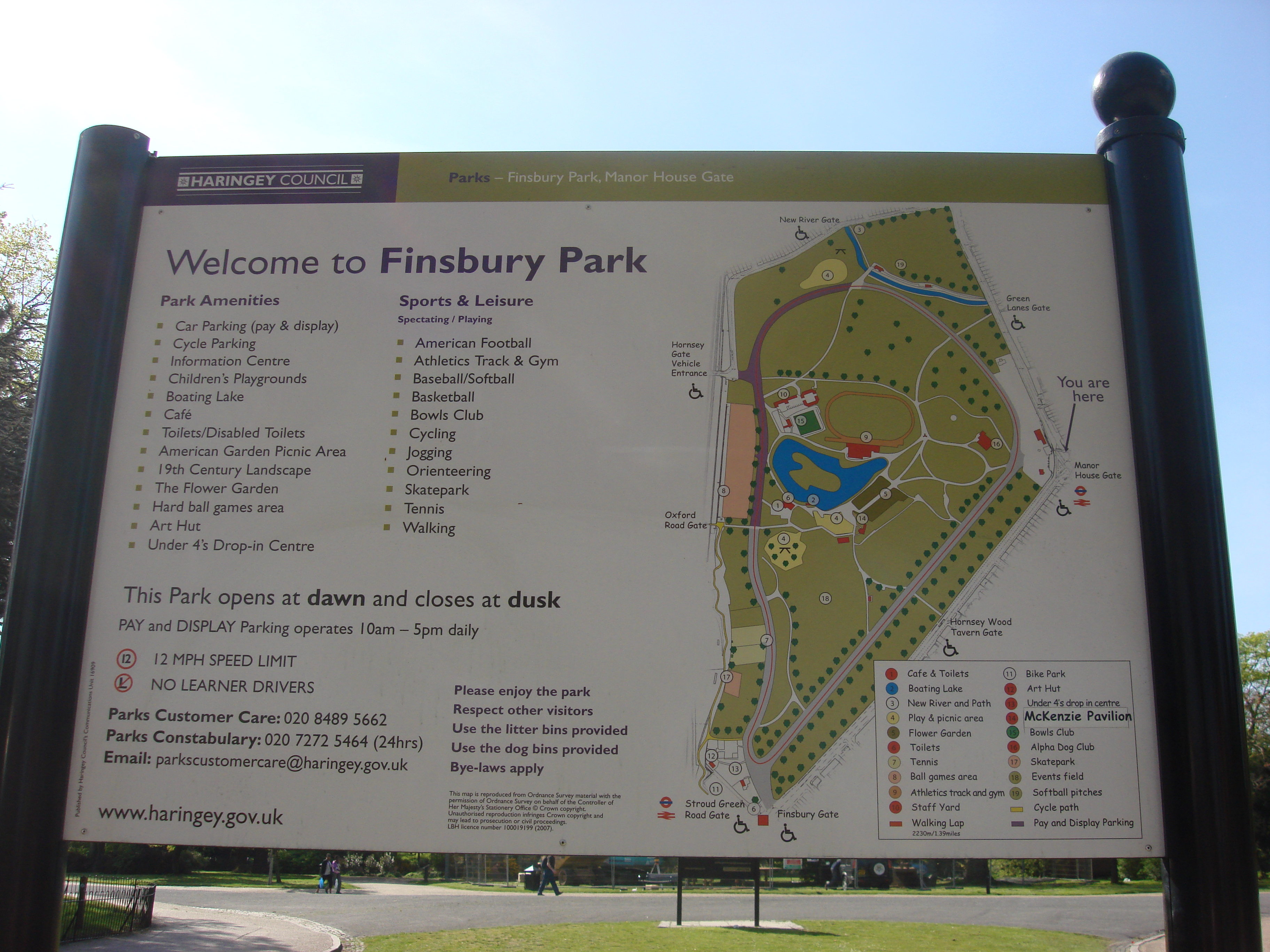 Finsbury Park